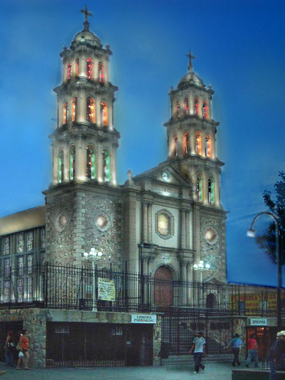 Juarez' Cathedral